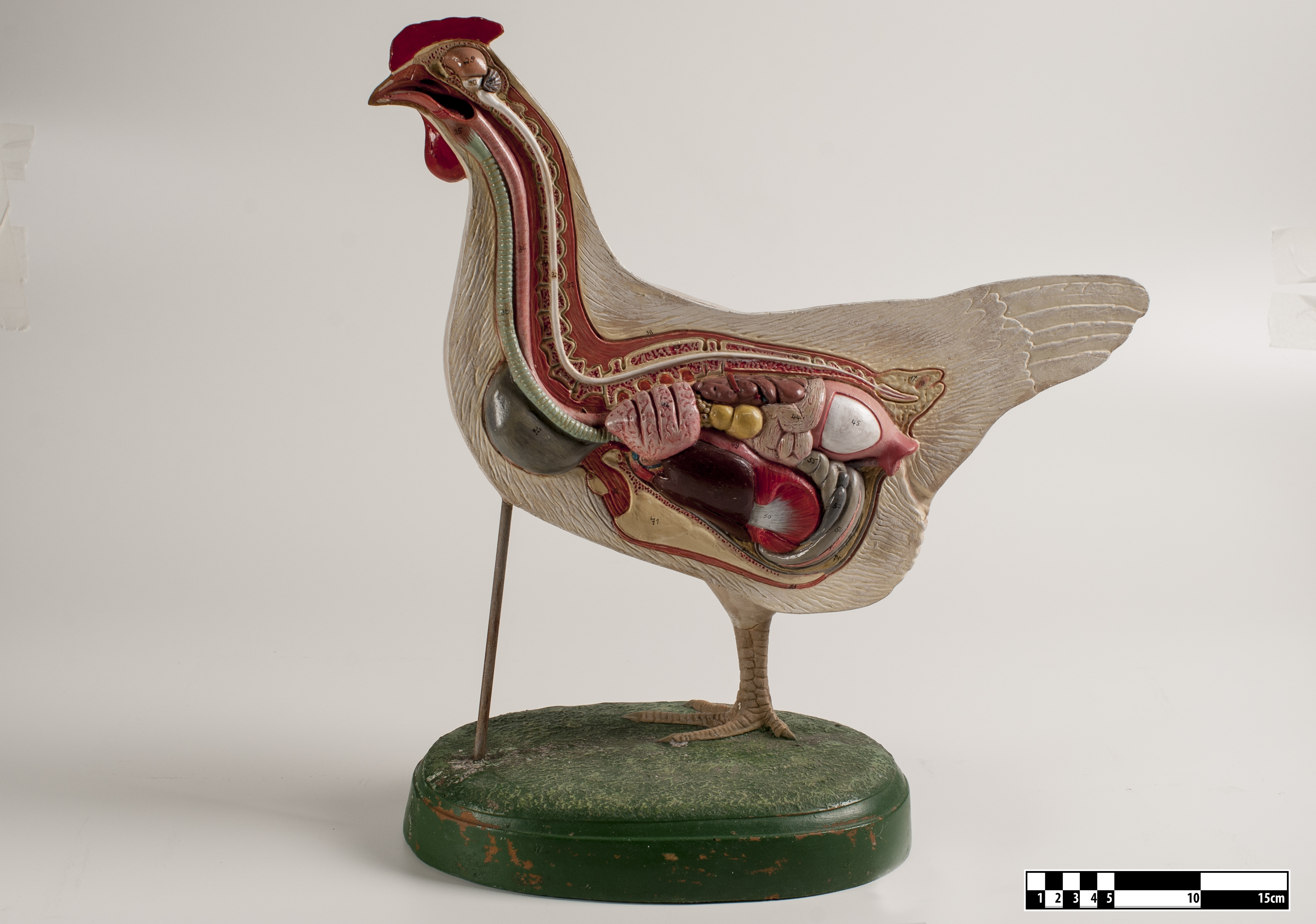 Didactic model of a chicken. Gallus gallus domesticus Model for teaching anatomy, piece showing the syntopy of organs in the left side and on display at the Museum of Veterinary Anatomy, FMVZ USP. This file was published as the result of a partnership between the Museum of Veterinary Anatomy FMVZ USP, the RIDC NeuroMat and the Wikimedia Community User Group Brasil. This GLAM project is reported. Photography: Museum of Veterinary Anatomy FMVZ USP. Author: Wagner Souza e Silva.